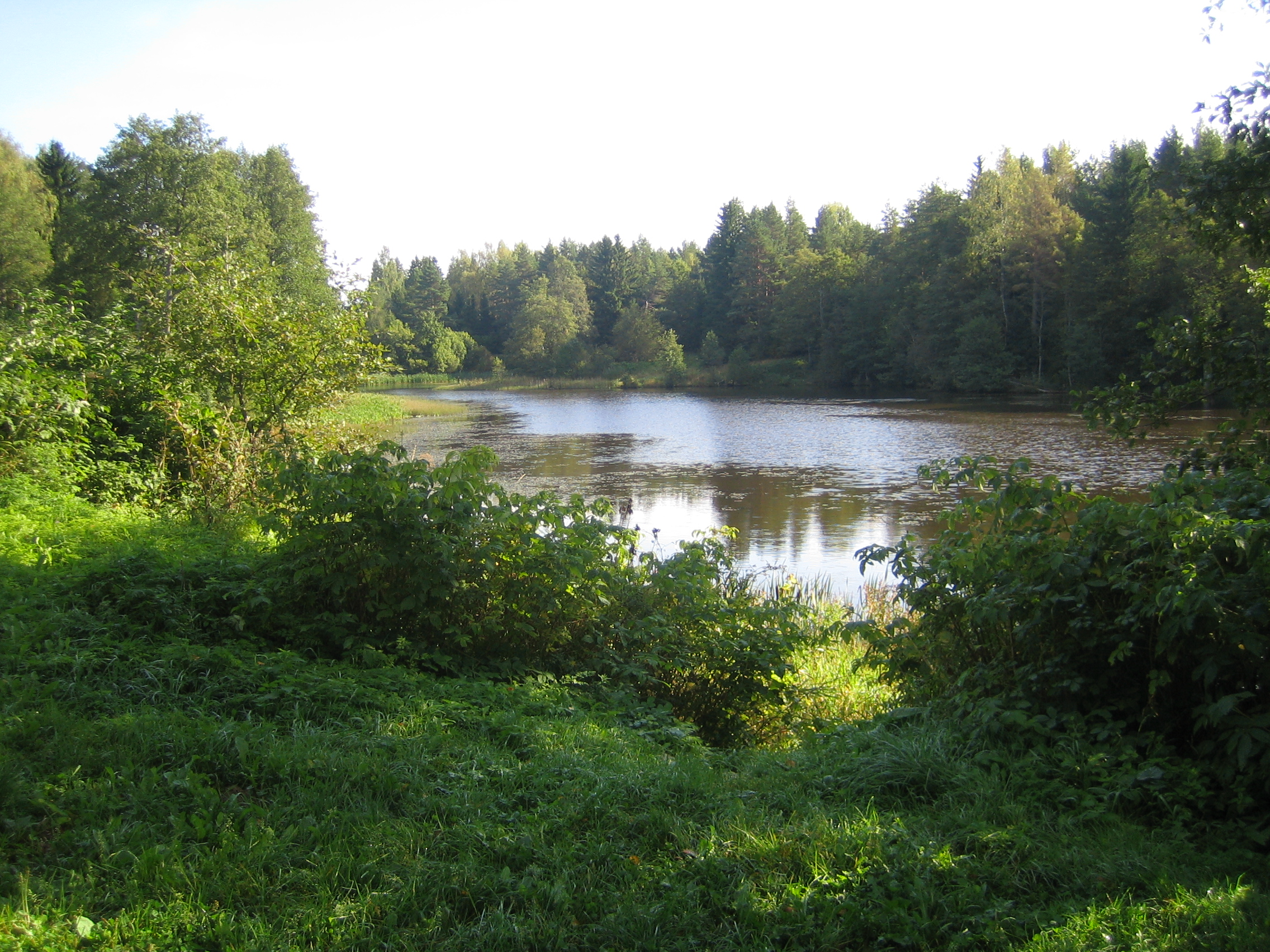 Oandu Lake in Lääne-Virumaa, Estonia